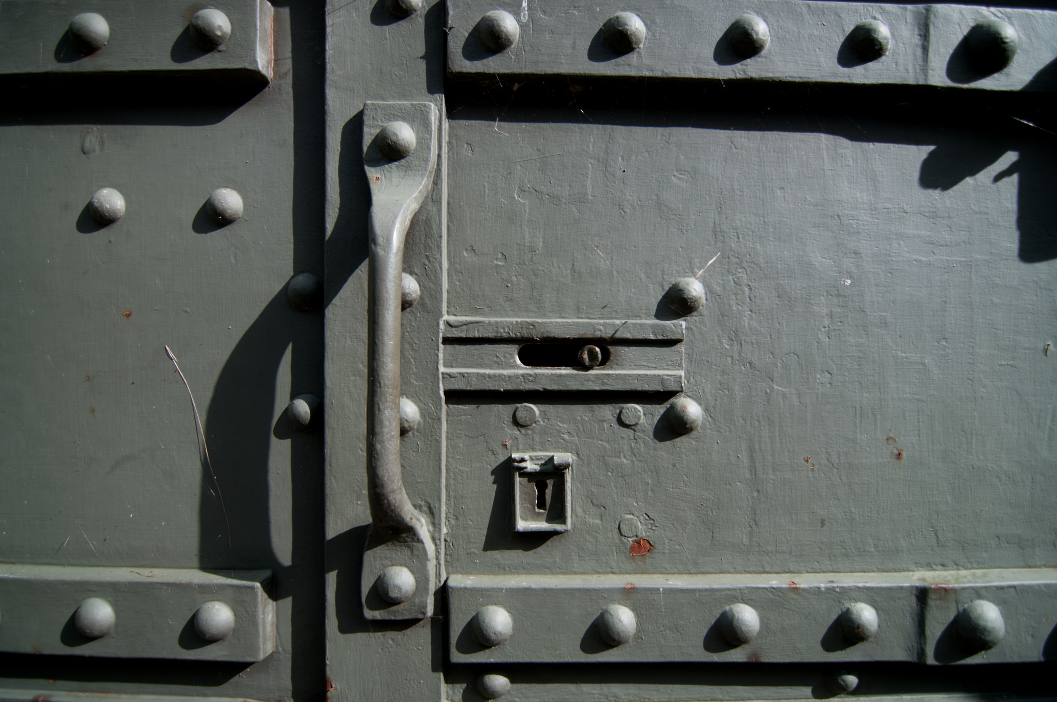 This was one of the few places that held out against the German invaders in may 1940. Its occupants only surrendered after the Germans bombed Rotterdam on the 14th of may and The Netherlands capitulated on the 15th of may 1940. Nikon D300 with Tokina 11-16 mm 2.8